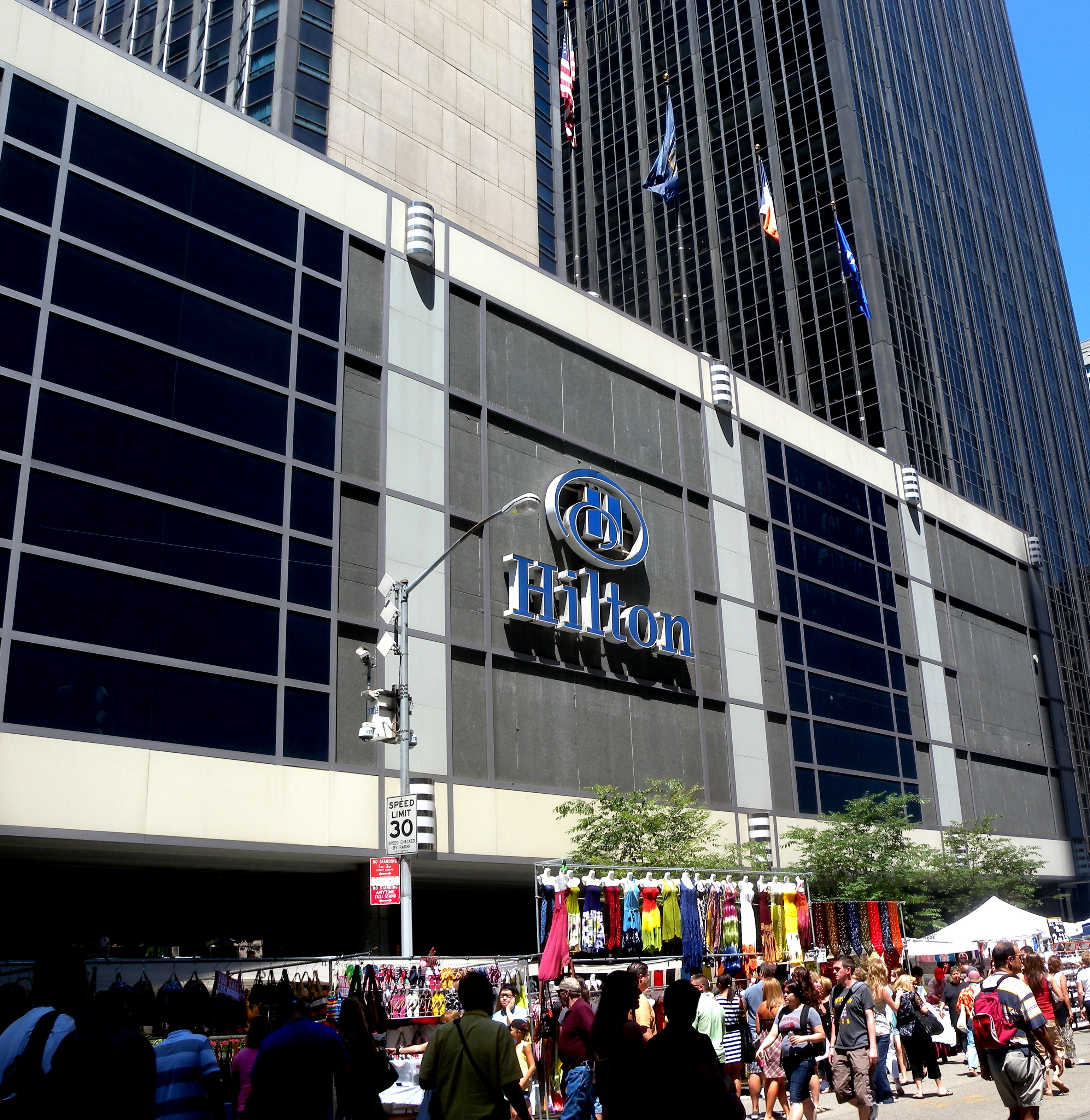 Looking northwest across 6th Ave from West 53rd Street at the Hilton on a sunny midday. See also File:Hilton NY 54 6 jeh.jpg.